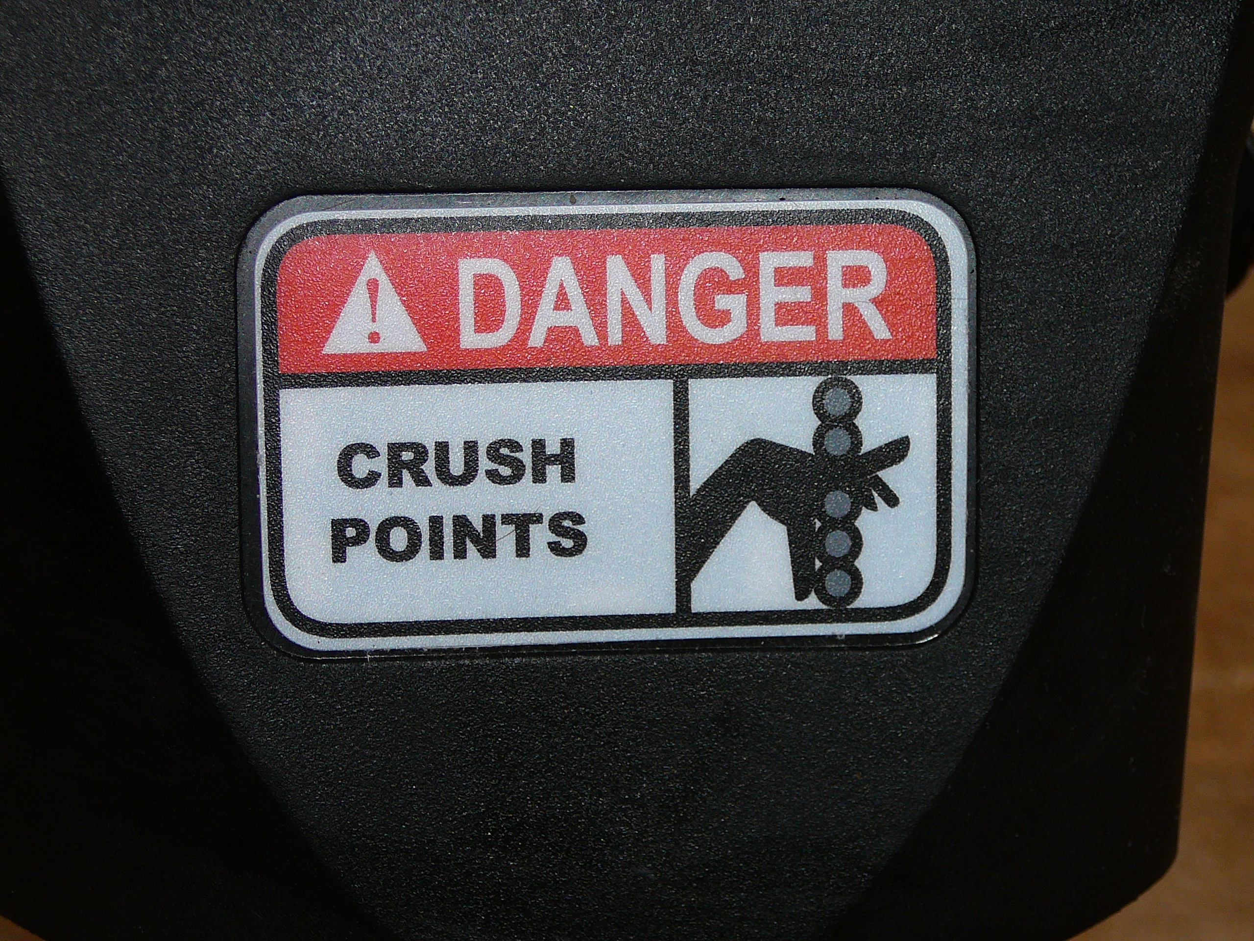 Danger sign on an exercise bench.